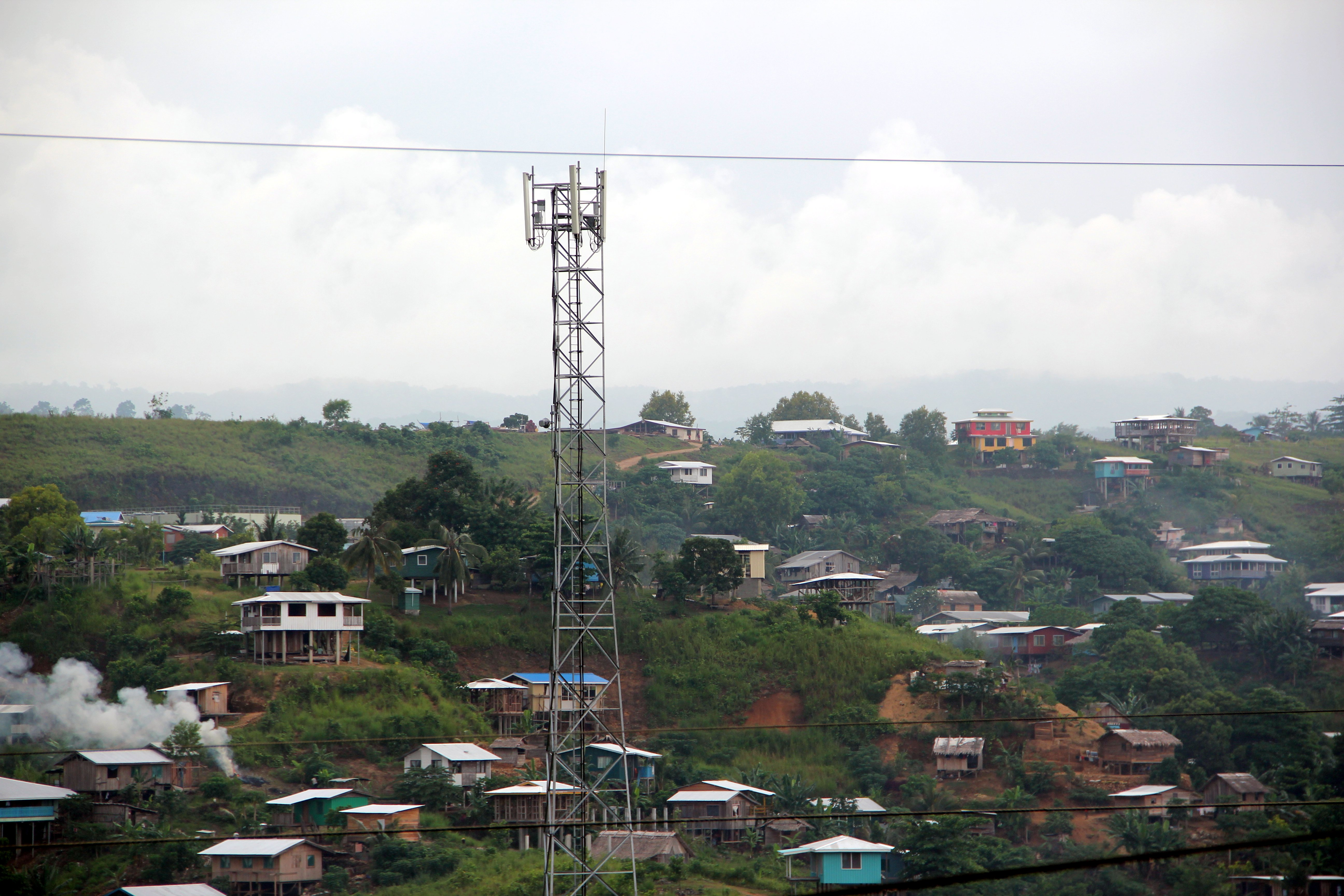 Cell phone tower serving a hillside in Honiara